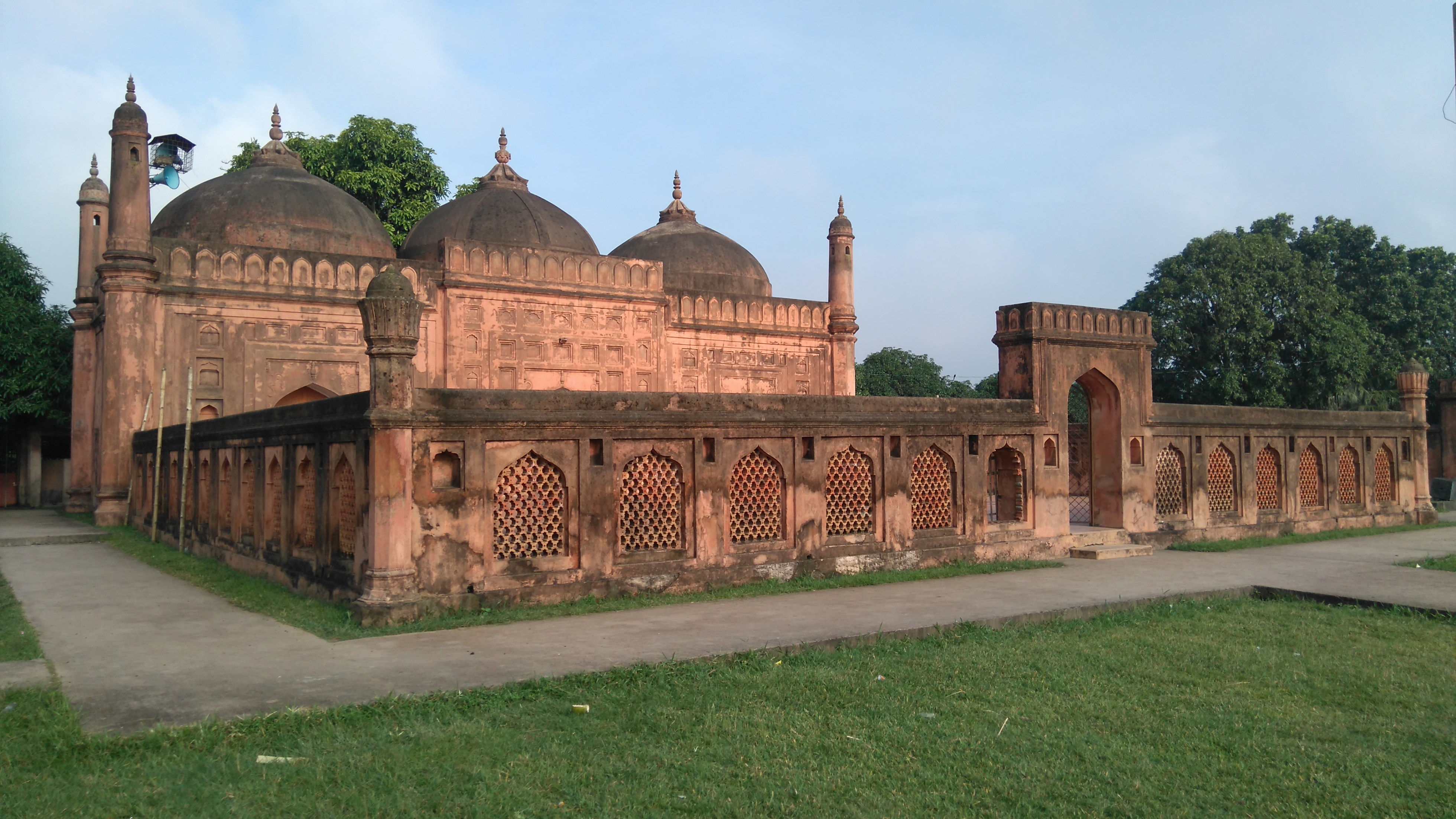 Shah Niamatullah Mosque, an ancient mosques built by shah shuja (1639-1660 AD) in honour of the saint Shah Niamatullah Wali who lies buried nearby in a tomb.